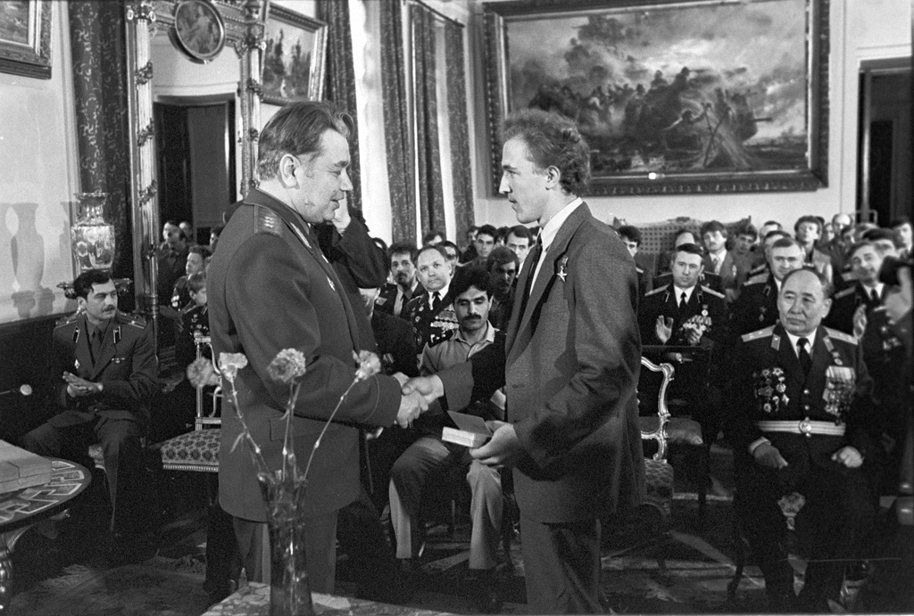 “Colonel General Viktor Yermakov and soldier-internationalist Yury Shikov”. The commemorative medal "To Soldier-Internationalist from the Grateful Afghan People" being received by a group of Soviet servicemen as well as reserve soldiers who performed their military duty. Commander of the Leningrad Military District Colonel General Viktor Yermakov (left) and soldier-internationalist Yury Shikov, a Hero of the Soviet Union.